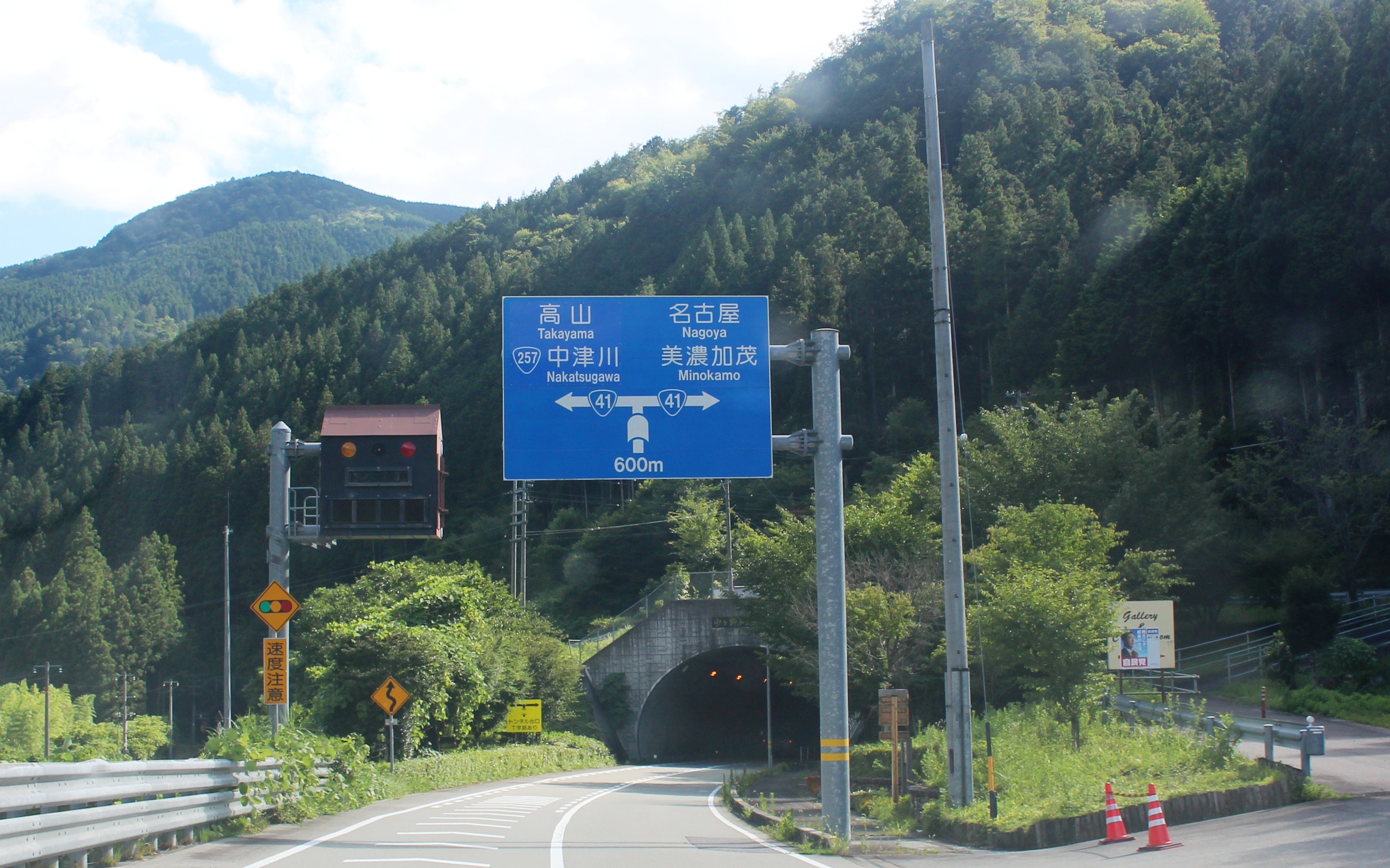 Northern entrance of Shogano Tunnel, Gifu Prefectural Road Route 88 in Shogano, Gero, Gifu prefecture, Japan.